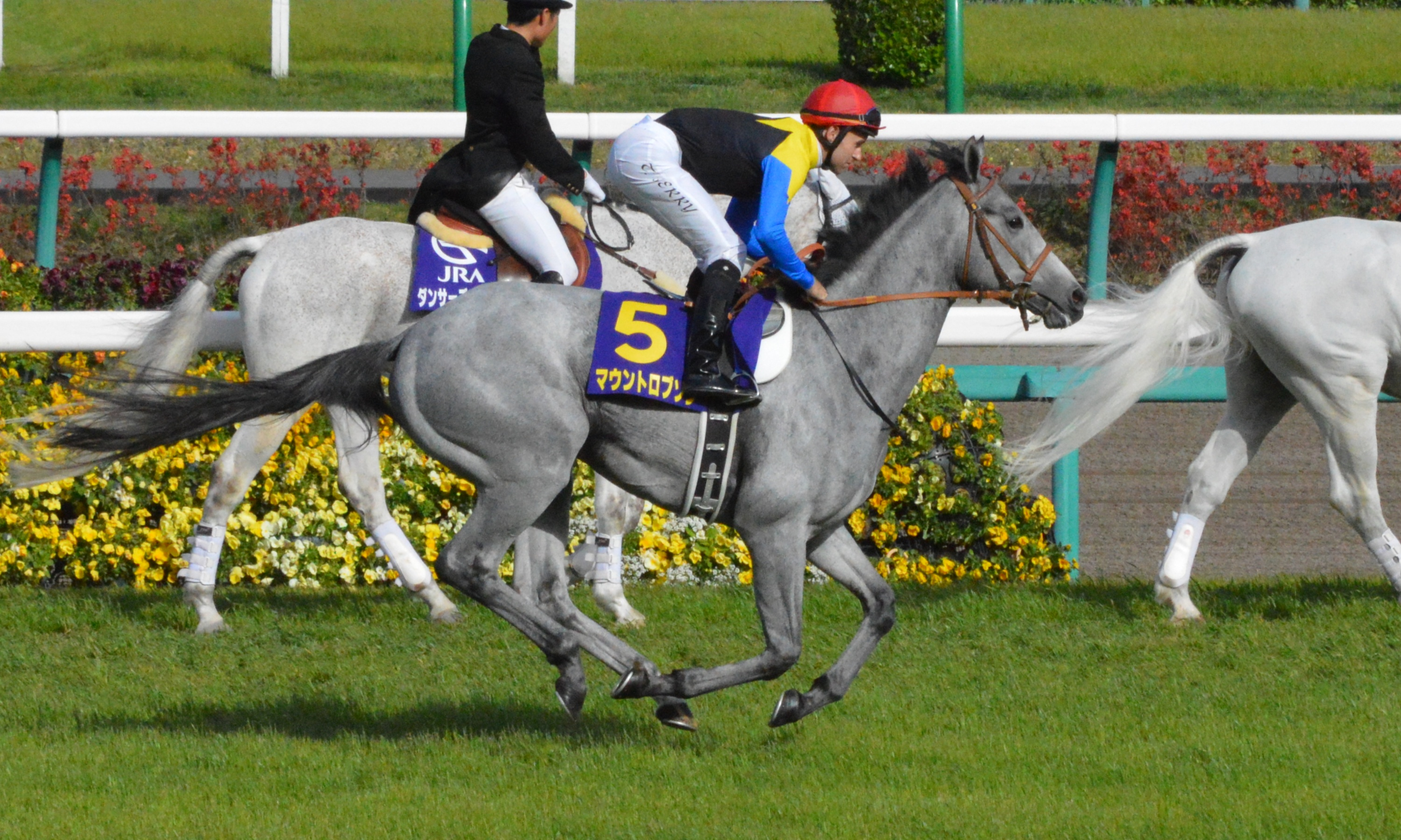 Japanese race horse Clarity Sky at Nakayama racecourse. Nakayama (JPN) 17 Apr 2016Satsuki Sho (Japanese 2000 Guineas) (Grade 1) (3yo Colts & Fillies) (Turf) 1m2f Firm RankHorse NameOddsAgeWgtTrainerJockey1stDee Majesty (JPN)30/1C39-0Yoshitaka NinomiyaMasayoshi Ebina2ndMakahiki (JPN)27/10C39-0Yasuo TomomichiYuga Kawada3rdSatono Diamond (JPN)17/10FC39-0Yasutoshi IkeeChristophe-Patrice Lemaire4th-5th, 7th-18th/omission6thMount Robson (JPN)249/10C39-0Noriyuki HoriTommy Berry